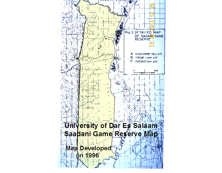 SGR Map developed by University of Dar es Salaam, Institute for Resource Assessment, after it was commissioned by the Wildlife Division (WD) and the Tanzania Ministry of Environment. Saadani's village prime coastal lands are not included in this map of the Saadani Game Reserve